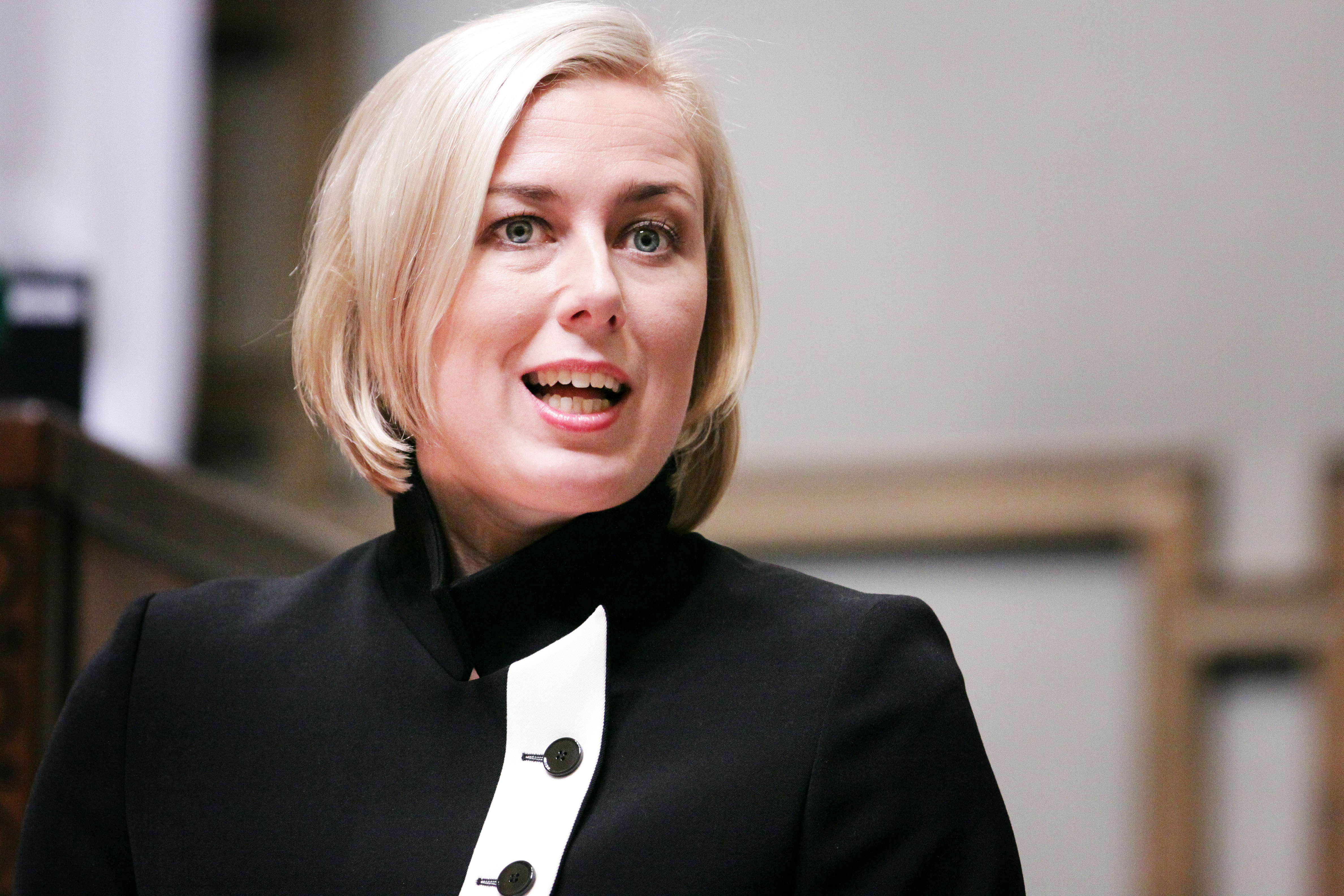 Chairman of the Social Democratic Party of Finland Jutta Urpilainen in Helsinki